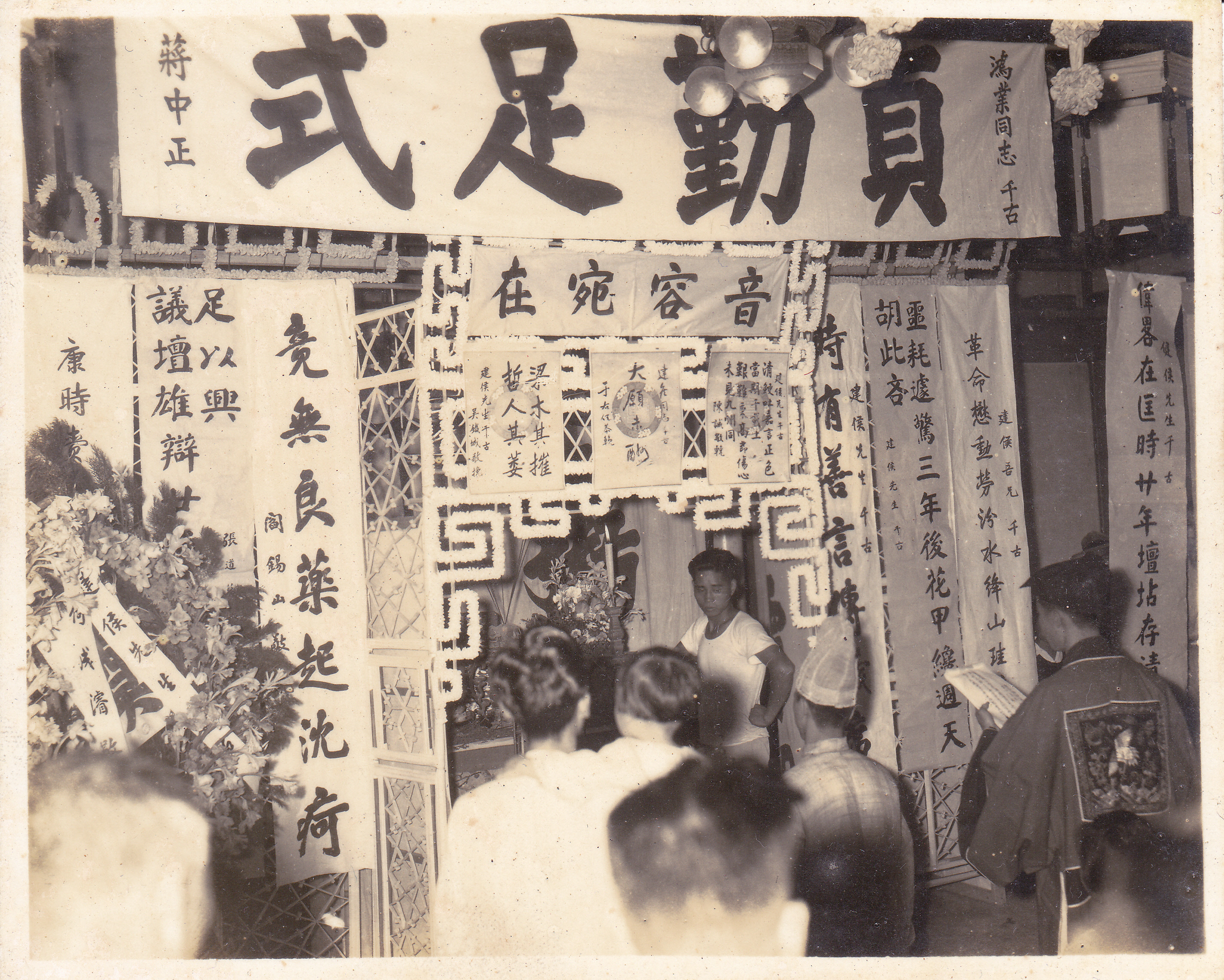 DENG HONG-YE Funeral 1952